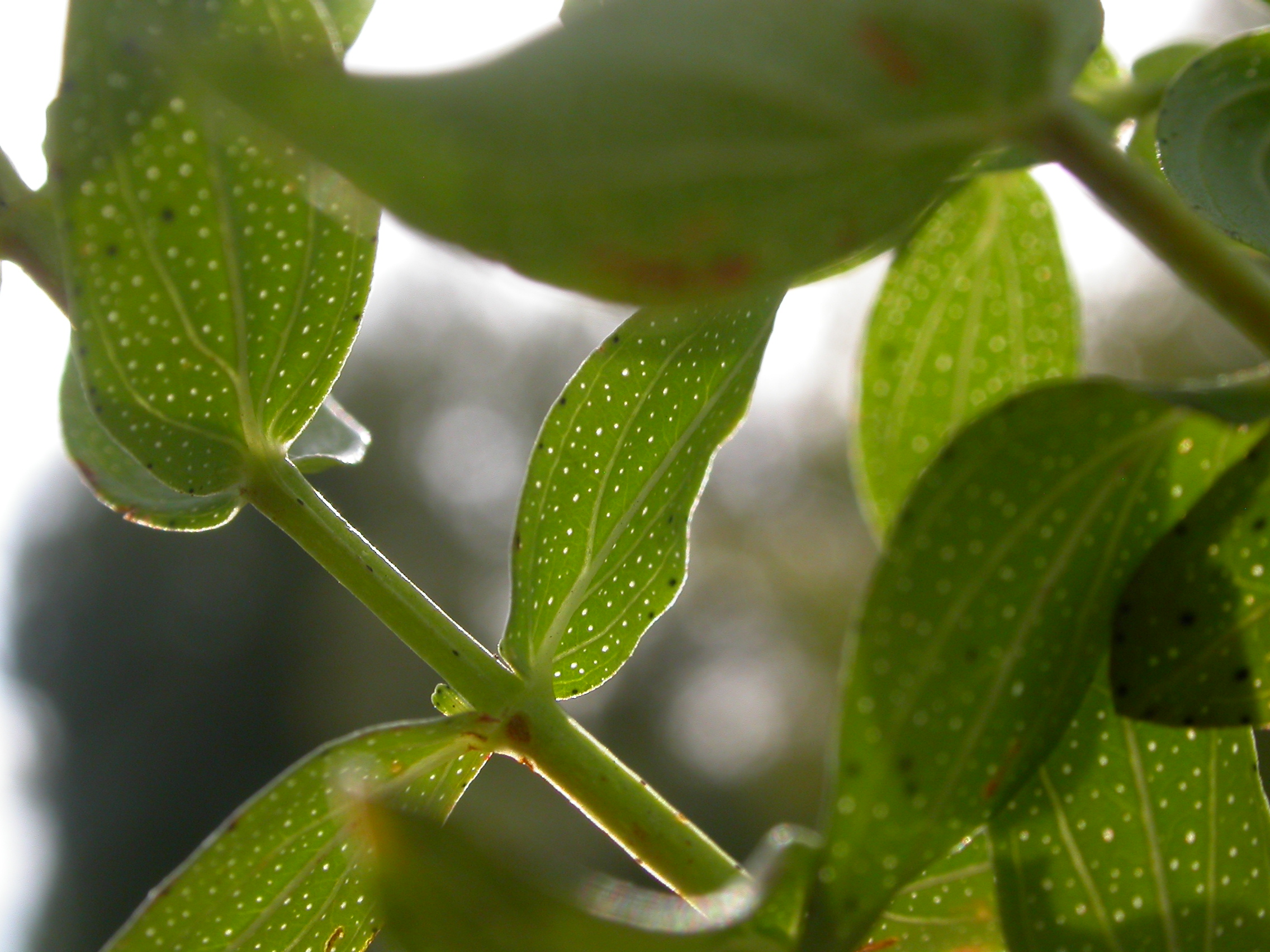 Opposite leaves and tranluscent punctate leaf glands make this an easy genus to identify.